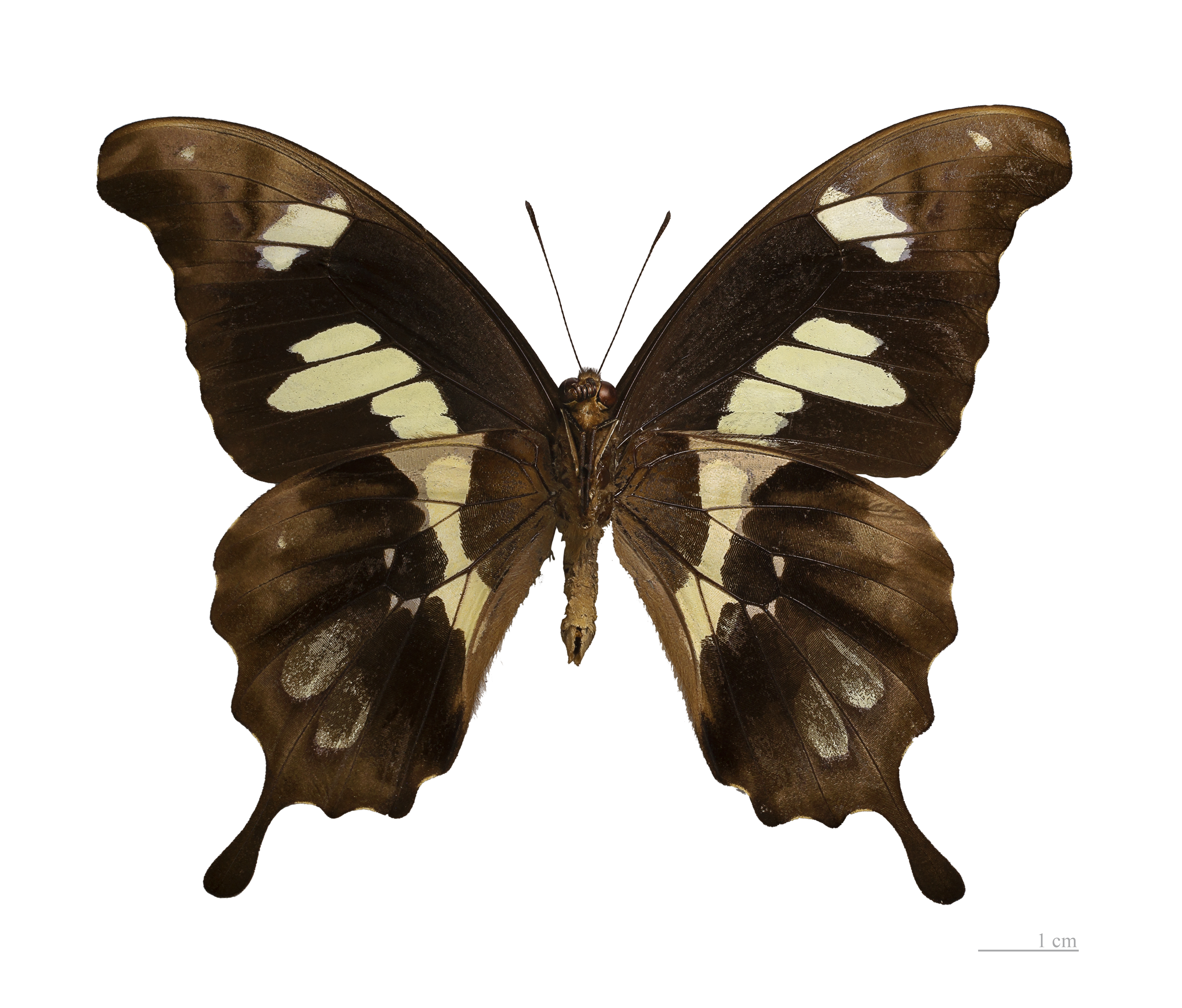 Hesperus Swallowtail ♂ - △ Ventral side Locality: Boukoko, Central African Republic